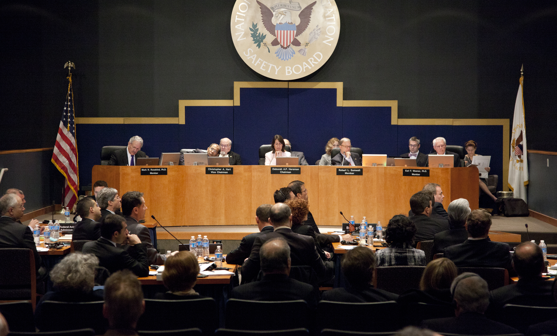 NTSB convenes 2nd day of Boeing 787 battery fire investigative hearing.